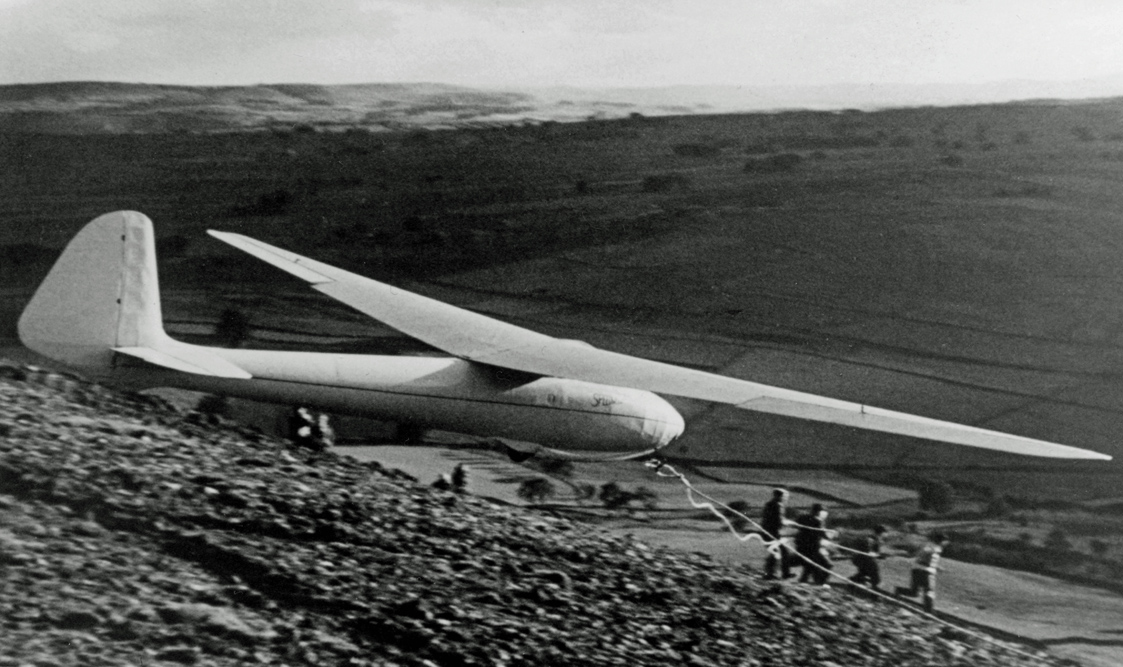 Elliotts of Newbury Olympia "Speedwell" of the Derbyshire & Lancashire Gliding Club launching at Camphill, Great Hucklow